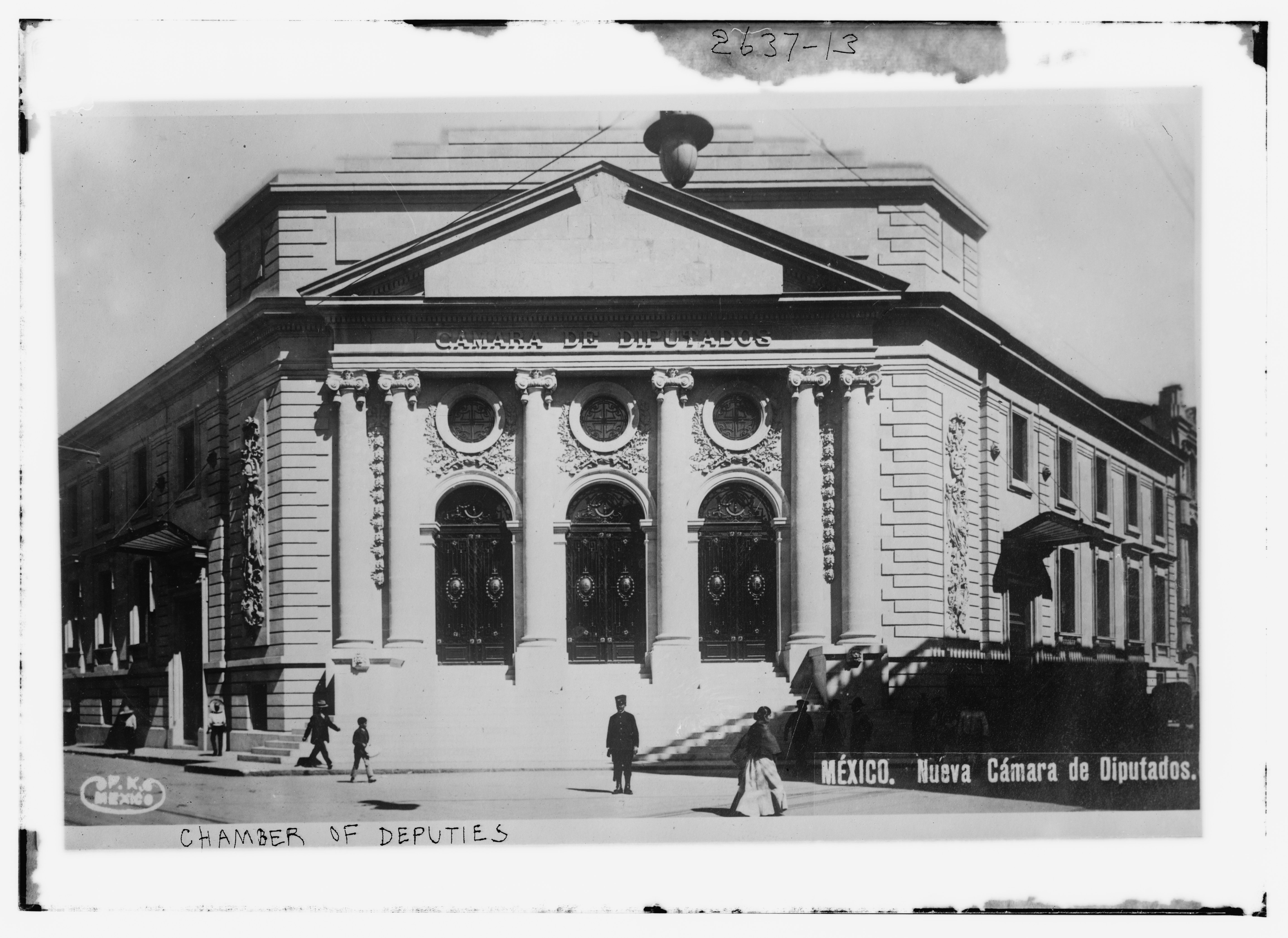 Title: Chamber of Deputies - Mexico, Nueva Camara de Diputados Abstract/medium: 1 negative : glass ; 5 x 7 in. or smaller.